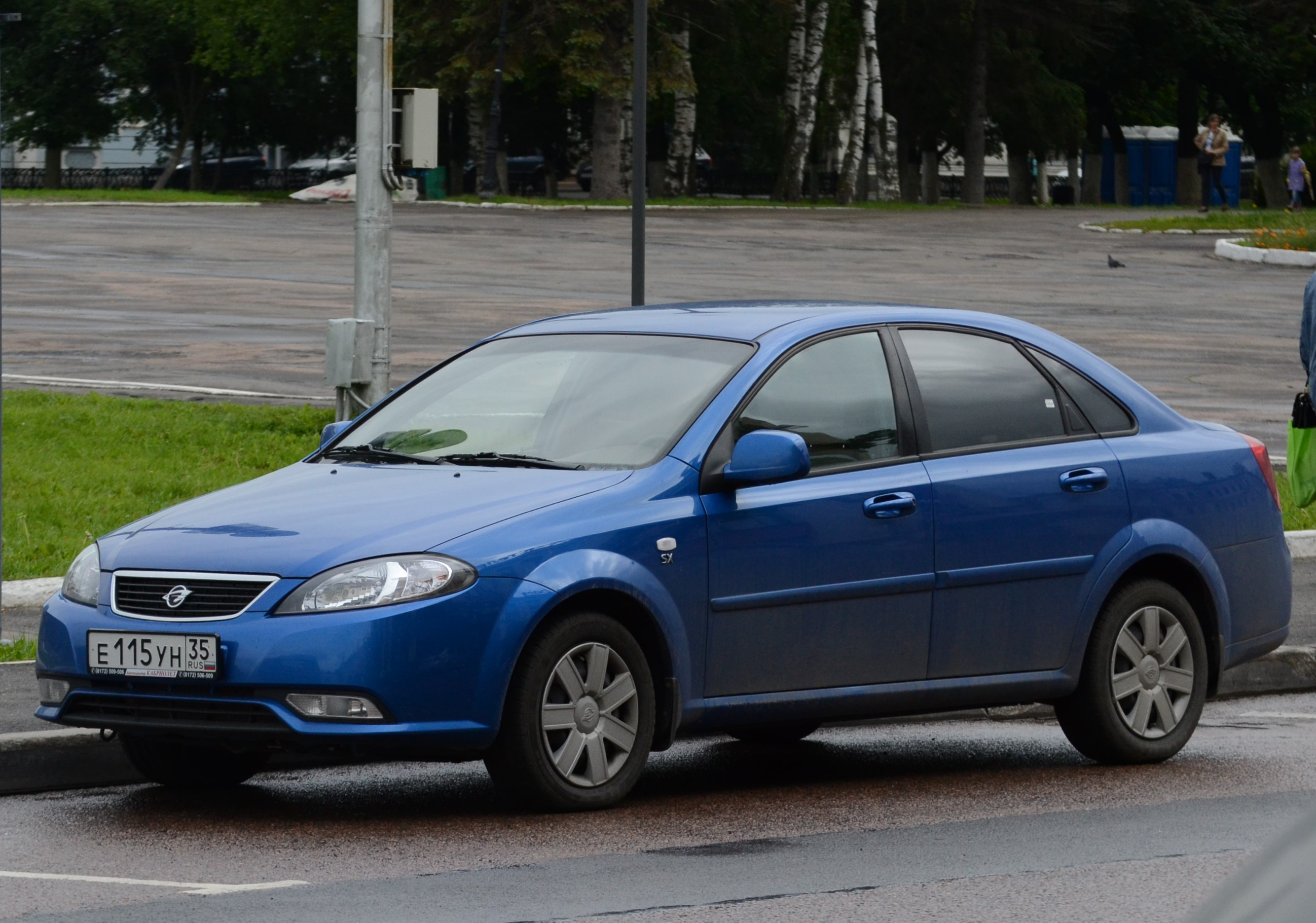 The Ravon Gentra sedan (rebadged Chevrolet Lacetti)